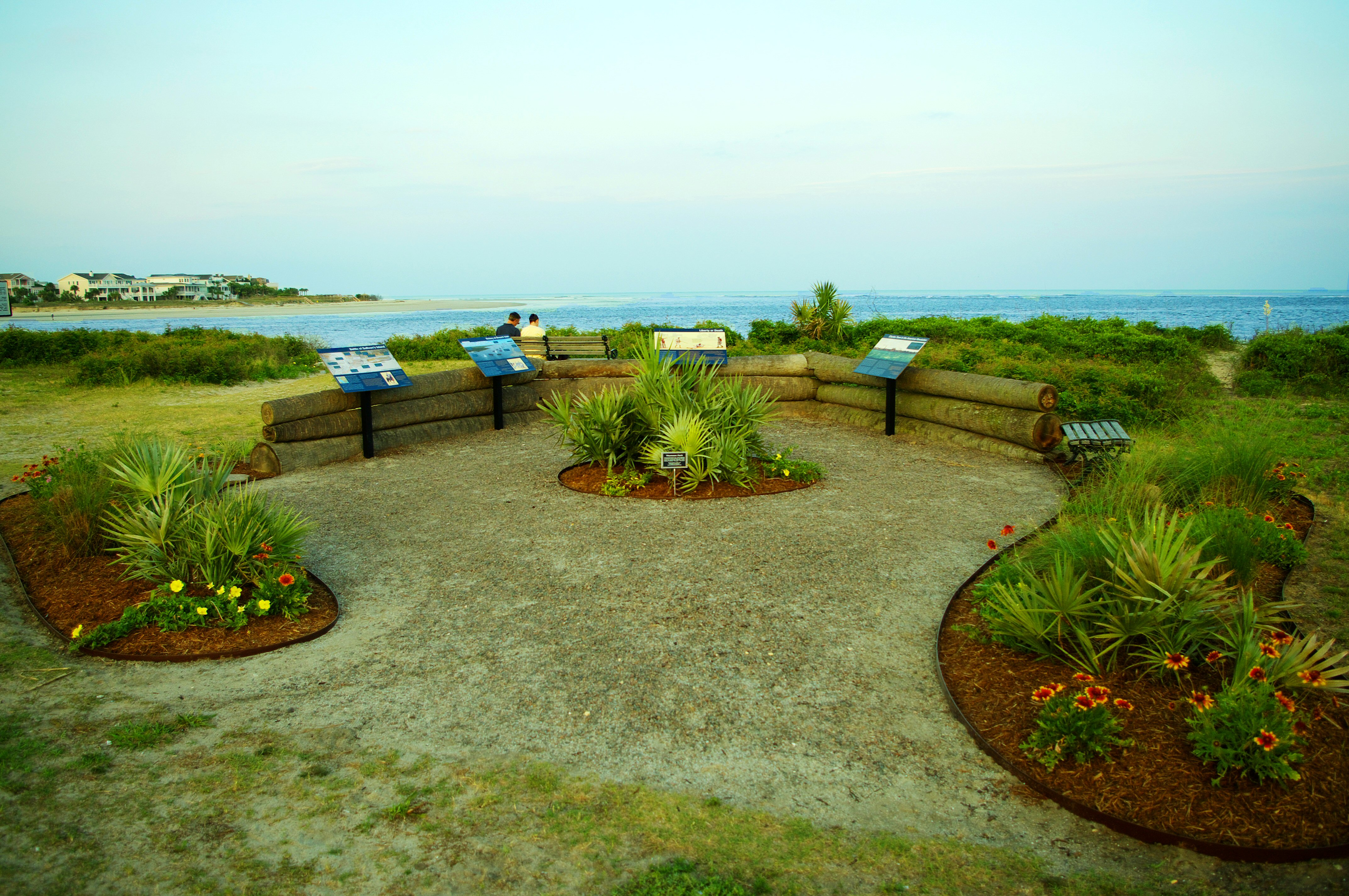 Monument to the 1776 Battle of Sullivan's Island on Sullivan's Island, South Carolina, United States.